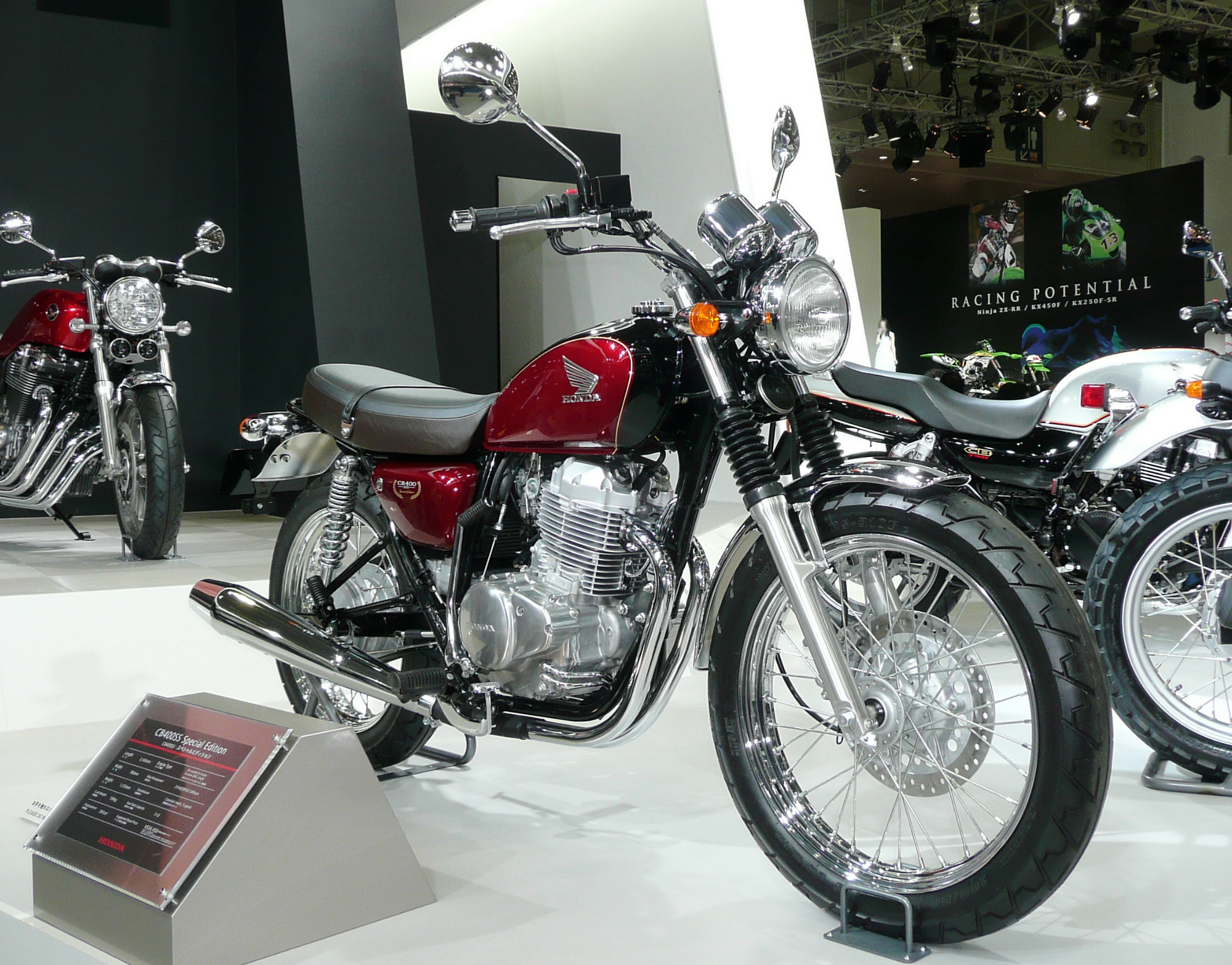 Honda CB400SS Special Edition